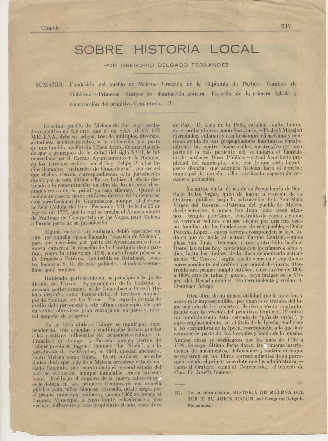 Page 14 - News Cúspide, Volume I at March 15 of 1937